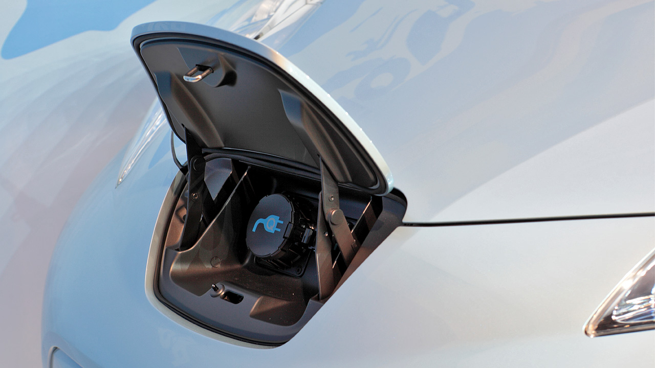 Nissan Leaf at Tokyo Motor Show.